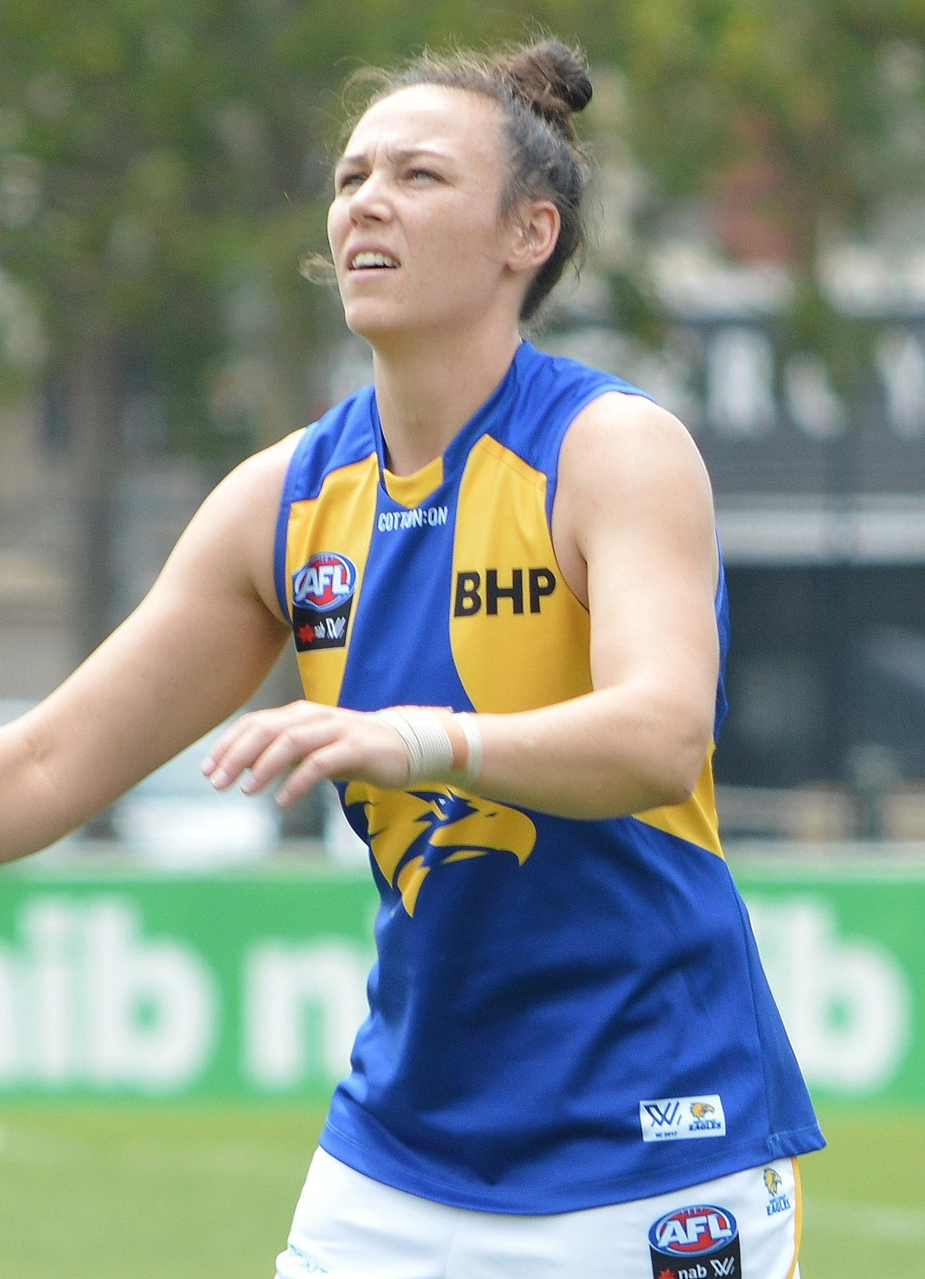 Ashlee Atkins with West Coast during a pre-season AFL Women's match against Richmond at Punt Road Oval in January 2020.